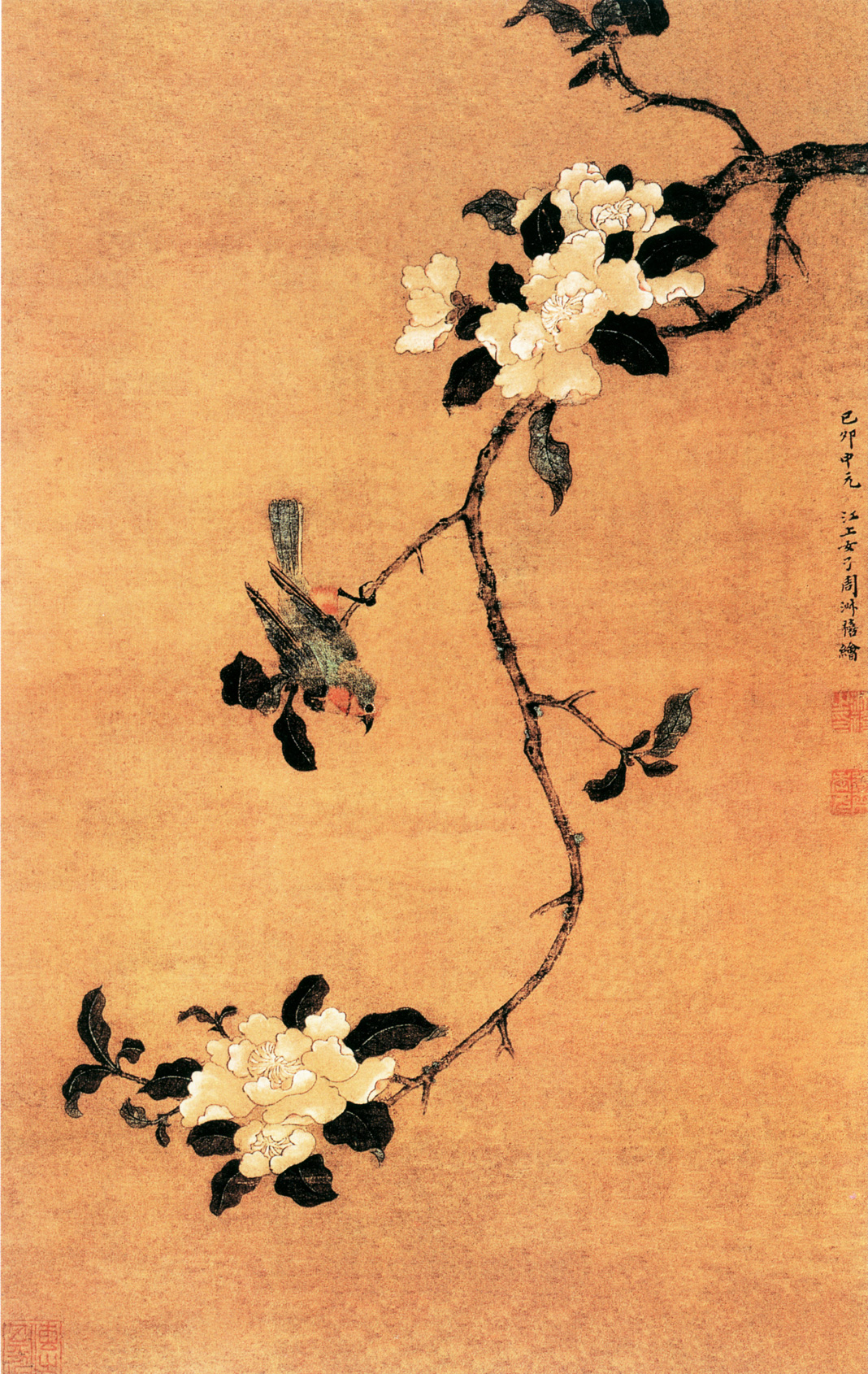 Camellia and a Lonely Bird, Zhou Shuxi, Qing Dynasty, China, Nanjing Museum